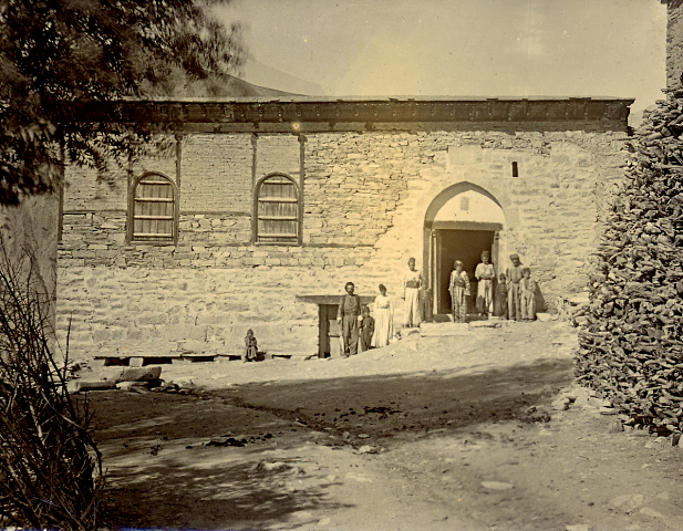 Photograph of the residence of Mar Shimon (Simon) in Qudshanis in the mountainous remote region of Hakkari in S.E. Turkey, taken by a British Missionary in 1904.